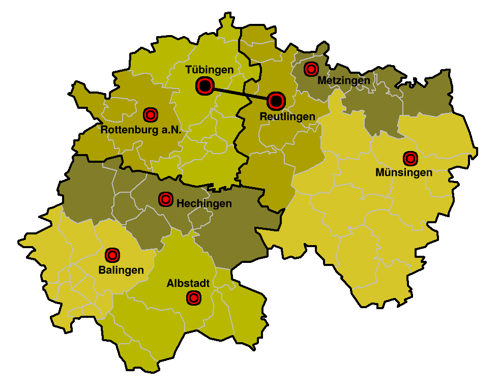 Maps of planning regions (Mittelbereiche) in the region Neckar-Alb, Baden-Württemberg, Germany